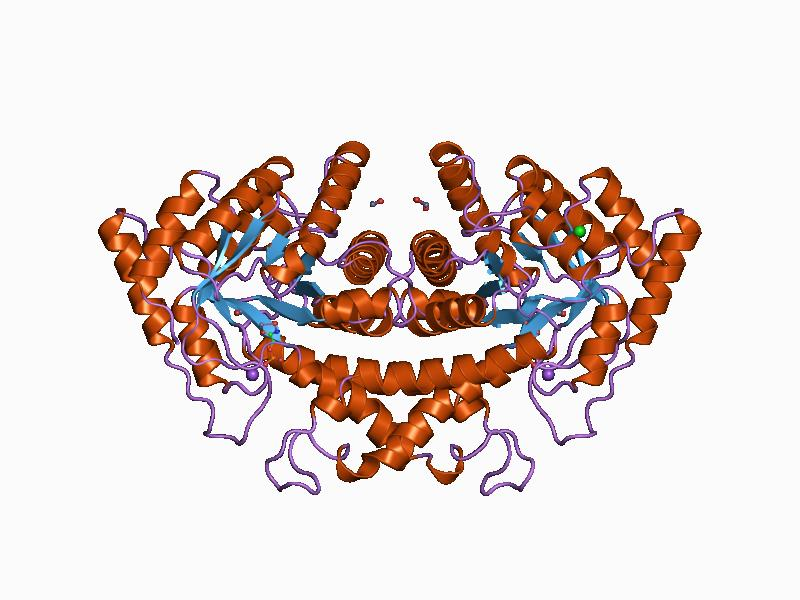 Cartoon representation of the molecular structure of protein registered with 1b57 code.